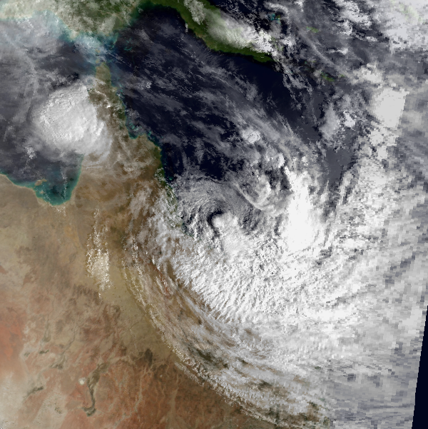 Cyclone Joy of the 1990–91 Australian region cyclone season prior to making landfall on the Australian coast in late December 1990.